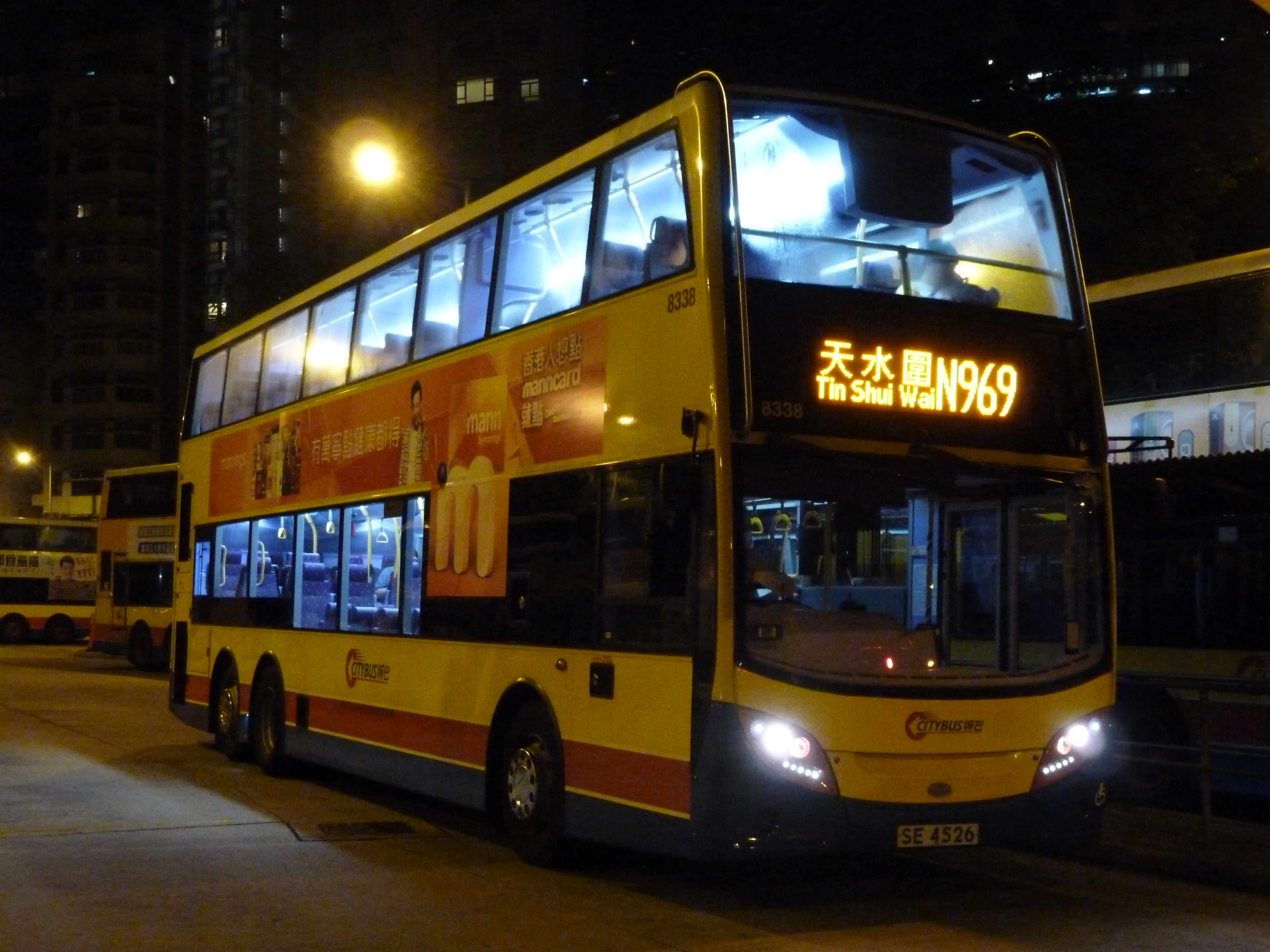 Citybus Route N969 (Causeway Bay (Moreton Terrace) Bus Terminus)中文（香港）: 城巴N969線 (銅鑼灣（摩頓台）巴士總站)